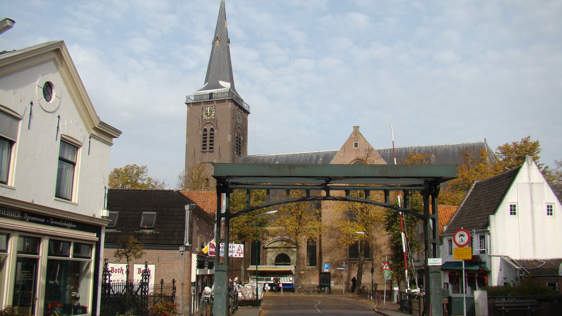 Abcoude, centre sight on reformed church 1470